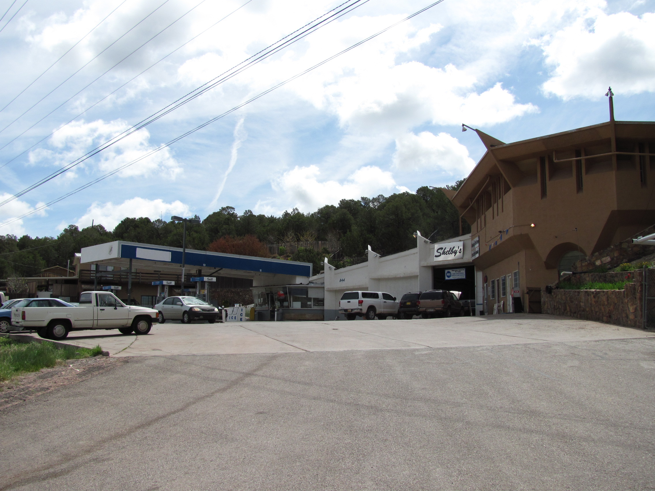 East Mountain Ready Mart, Zuzax New Mexico, May 2010